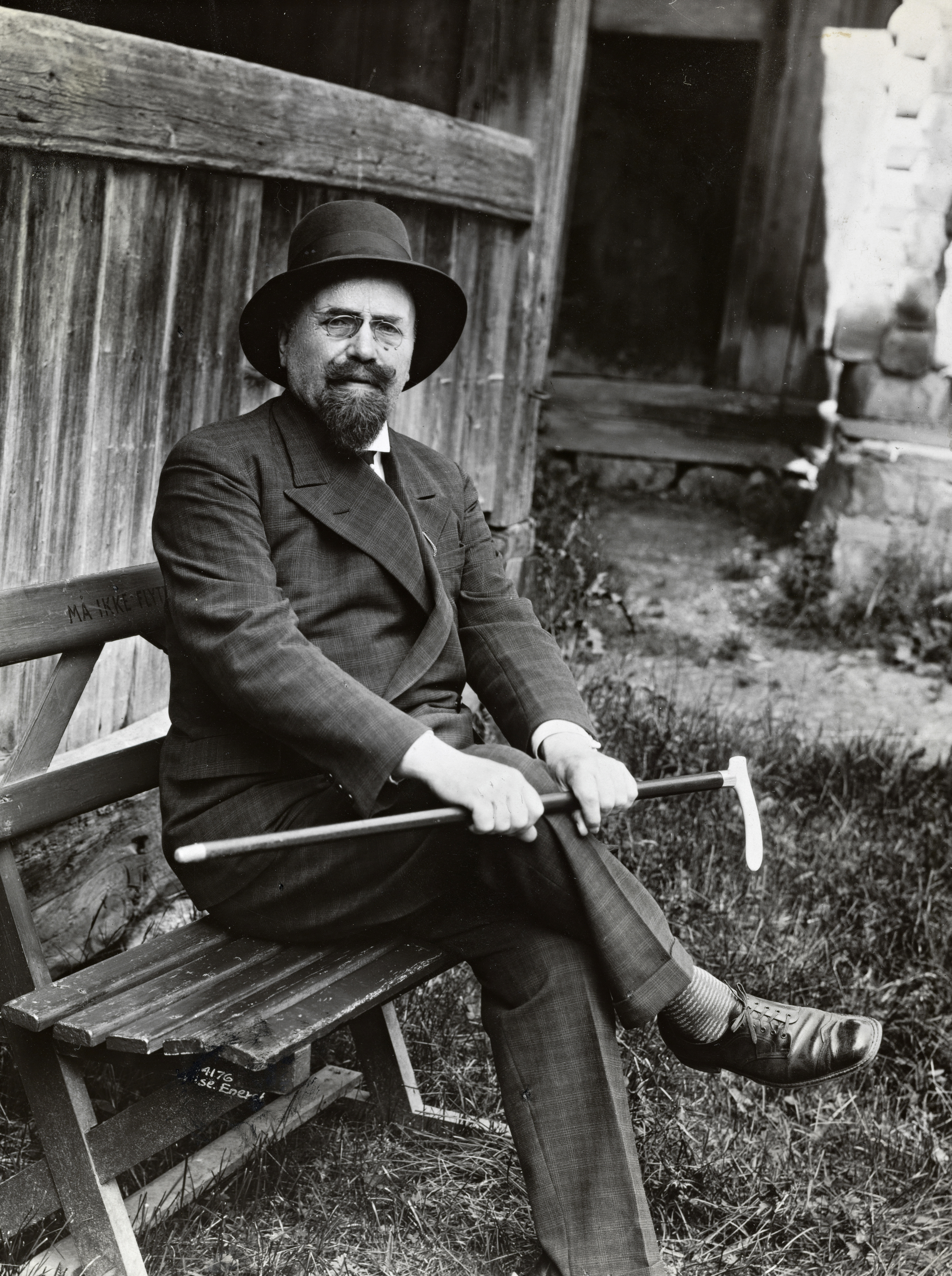 Anders Sandvig, Norwegian museum director.